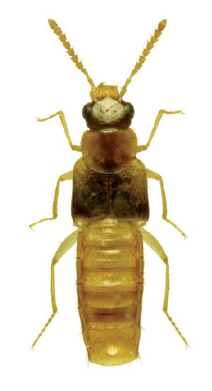 Dorsal view of Gyrophaena (G.) criddlei (apical part of abdomen removed).